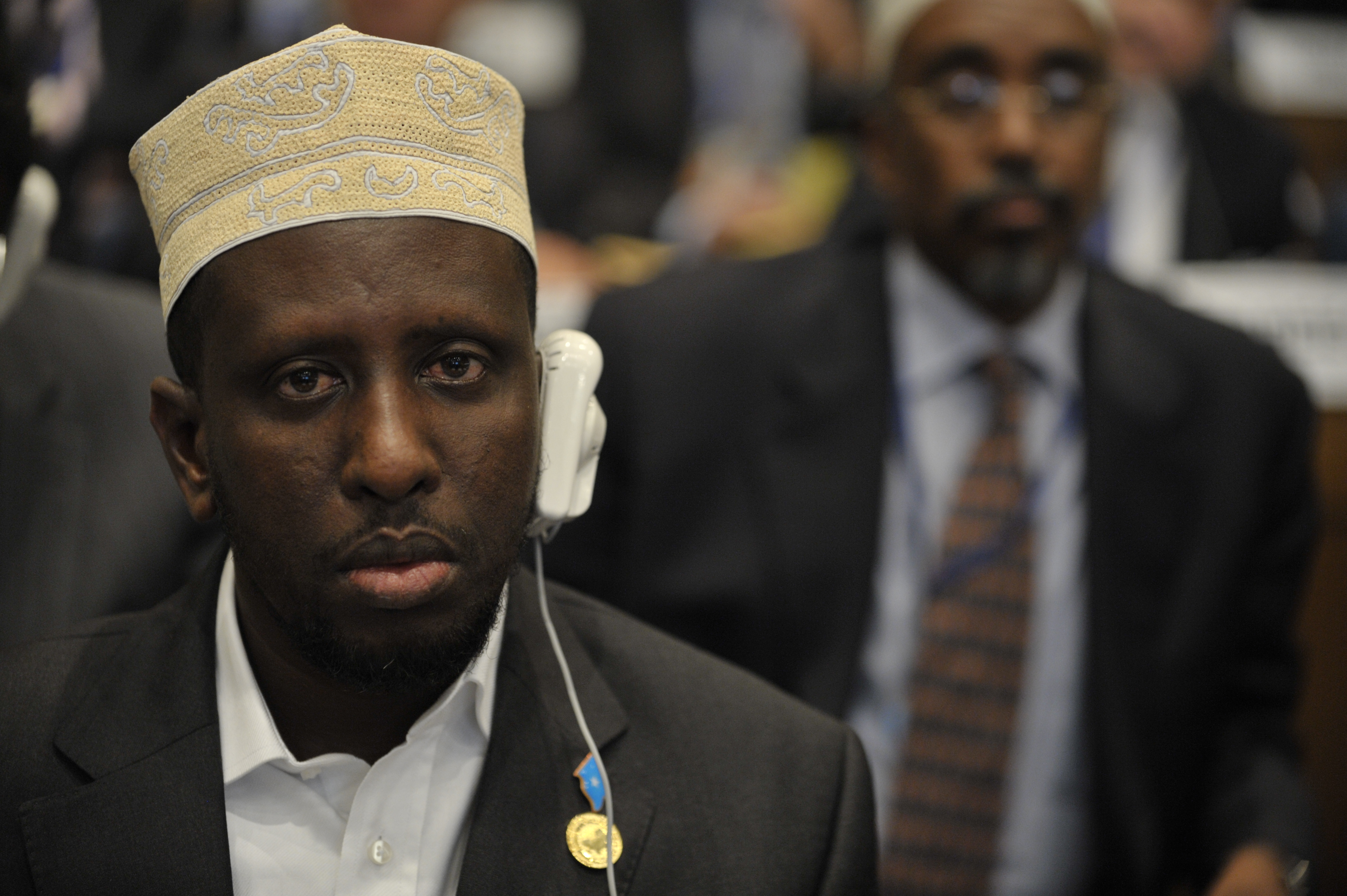 Somali President Sharif Sheikh Ahmed sits in the Plenary Hall of the United Nations building in Addis Ababa, Ethiopia, during the 12th African Union Summit Feb. 2, 2009.